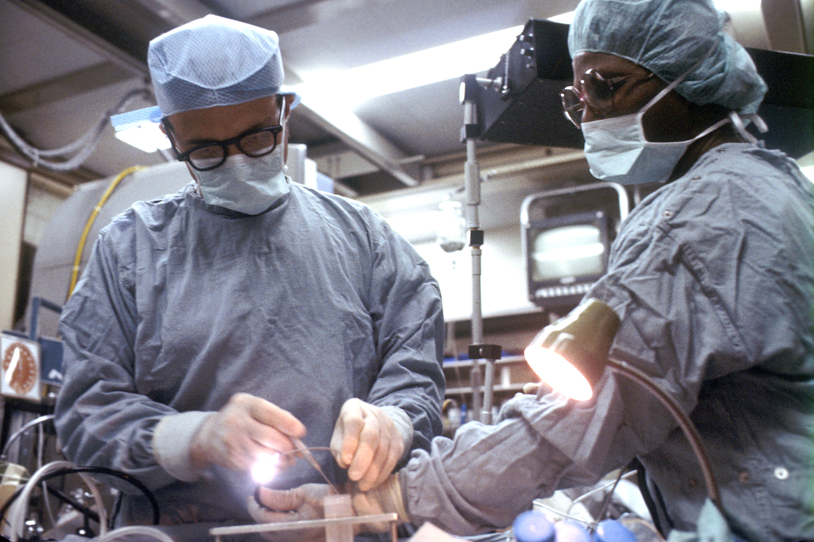 Title Bronchoscopy Description Seen are two Caucasian physicians using a bronchoscope which is a flexible tube with a light inside and is inserted into the patient's trachea. Doctors can view inside the body through the tube allowing easier access to removal of tumors. Topics/Categories People -- Health Professional Test or Procedure -- Imaging Procedures Type Color, Photo Source National Cancer Institute